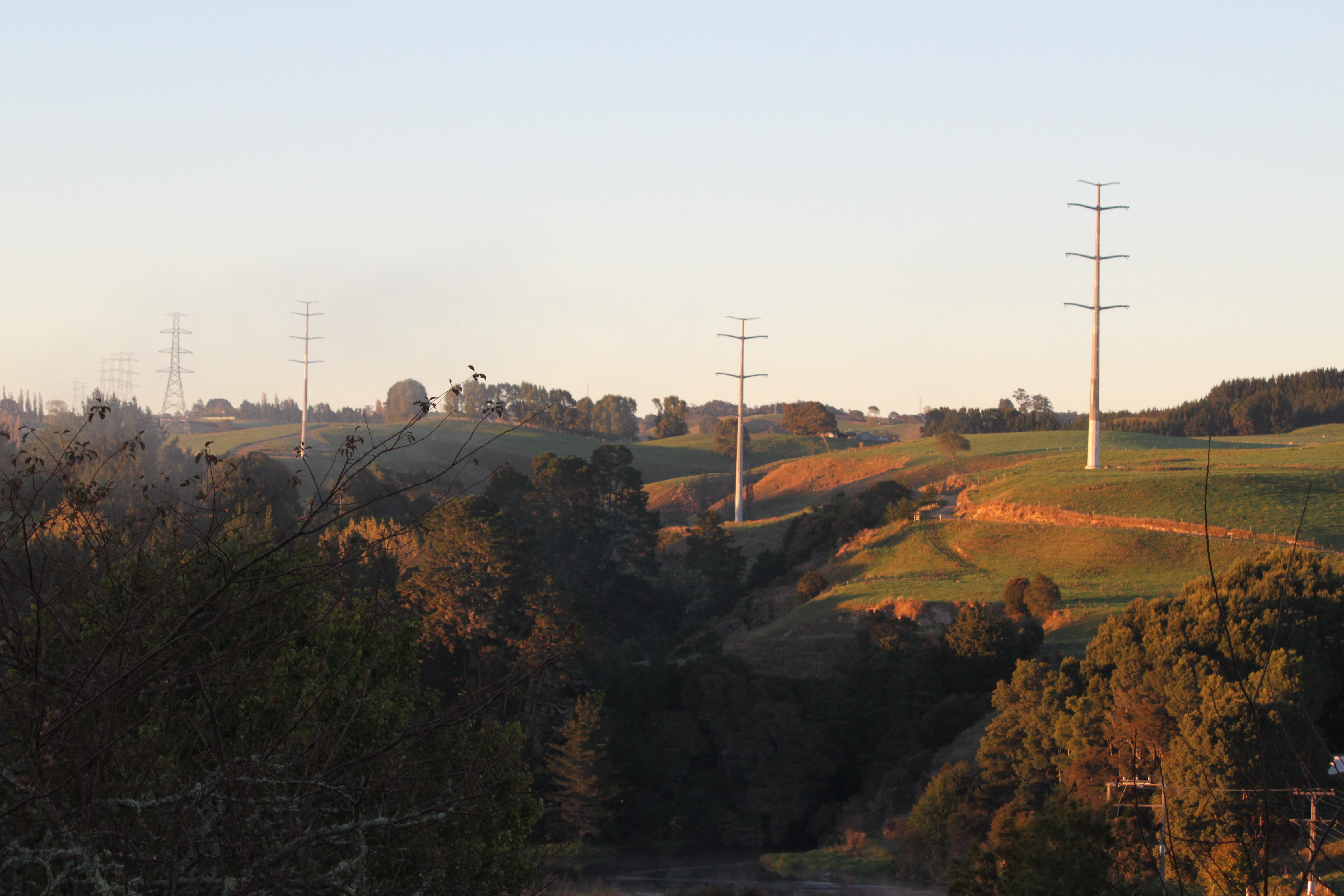 Monopole structures on Transpower's 400 kV Whakamaru to Brownhill Road transmission line across State Highway 1 near Lake Arapuni